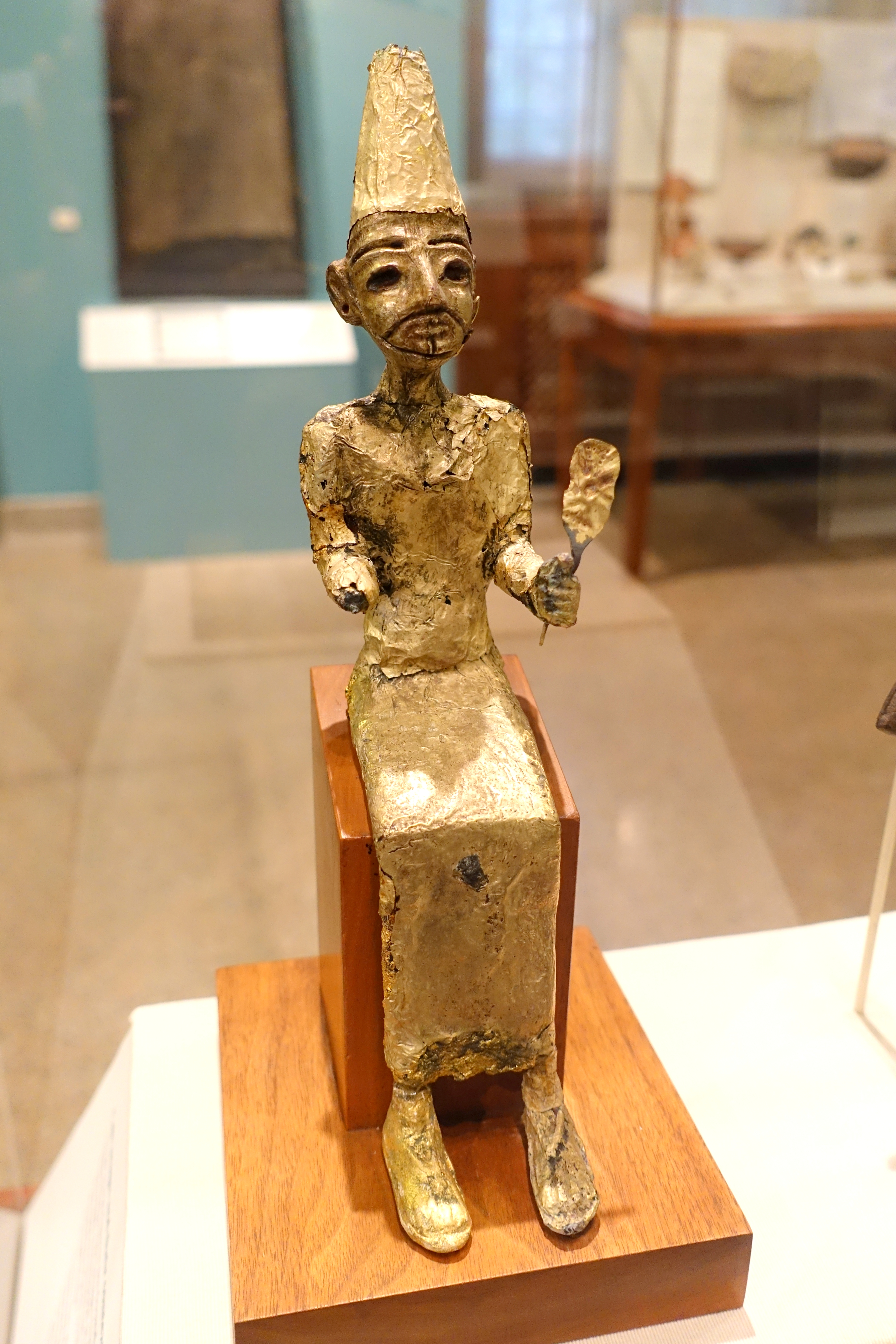 Exhibit in the Oriental Institute Museum, University of Chicago, Chicago, Illinois, USA. This work is old enough so that it is in the public domain.